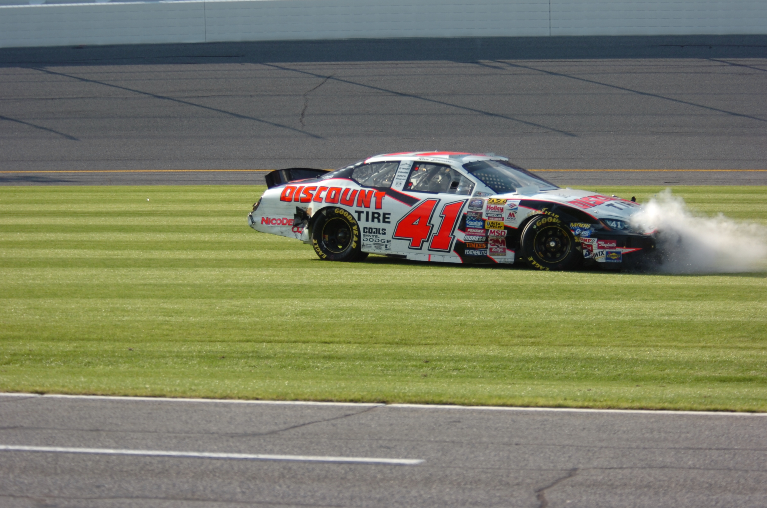 NASCAR driver Reed Sorenson File Size: 1970 Height: 1632 Horizontal Resolution: 300 Keywords: 060118-N-5862D-194.jpg,Daytona_Race